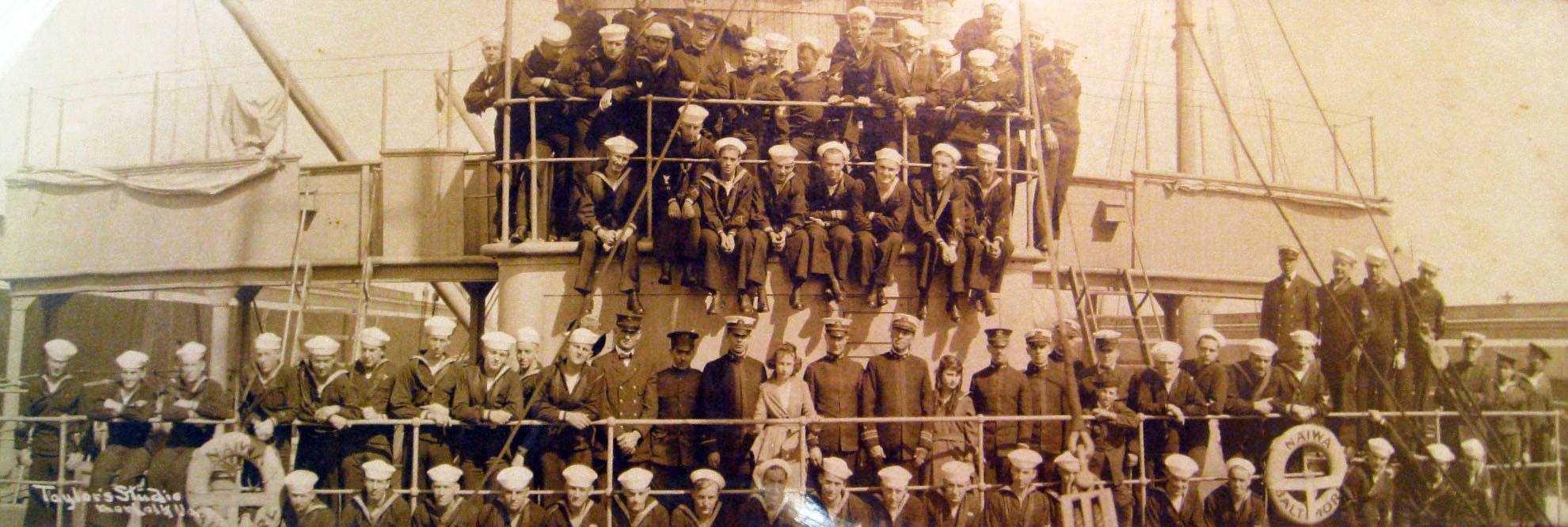 Ship's company, USS Naiwa, 1919. Taken at Naval Operating Base Hampton Roads (modern day Naval Station Norfolk)